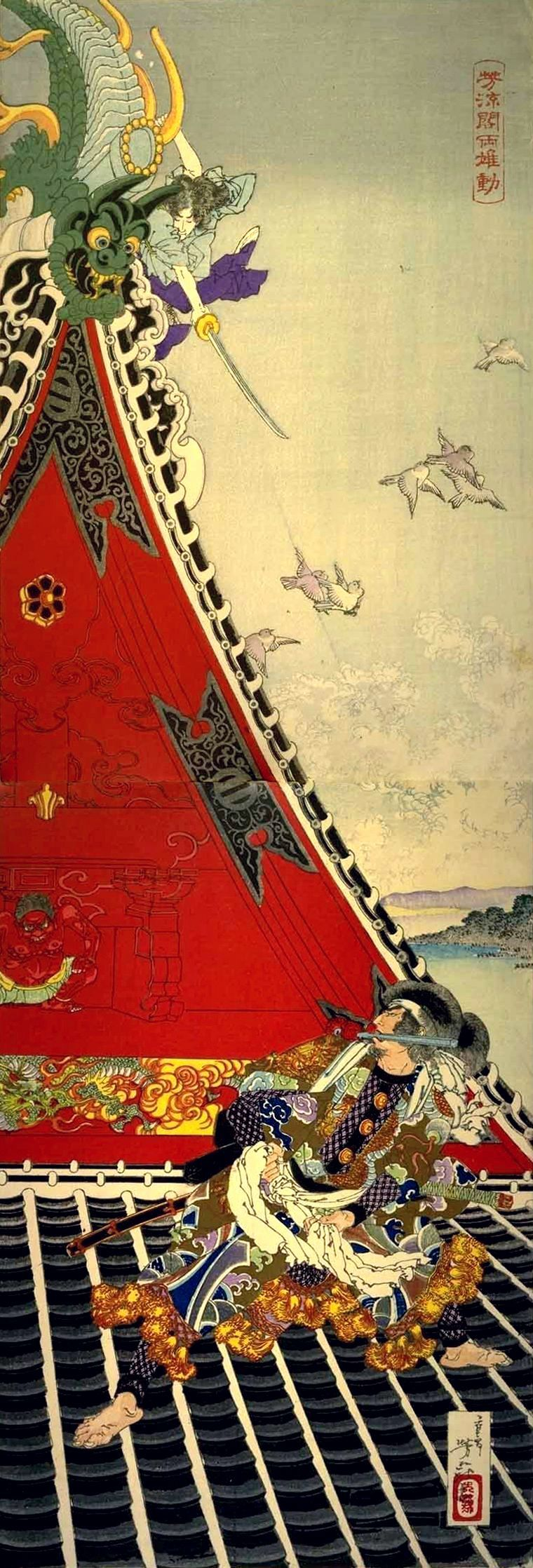 The Fight on the Roof of Hōryūkaku in Nansō Satomi Hakkenden.